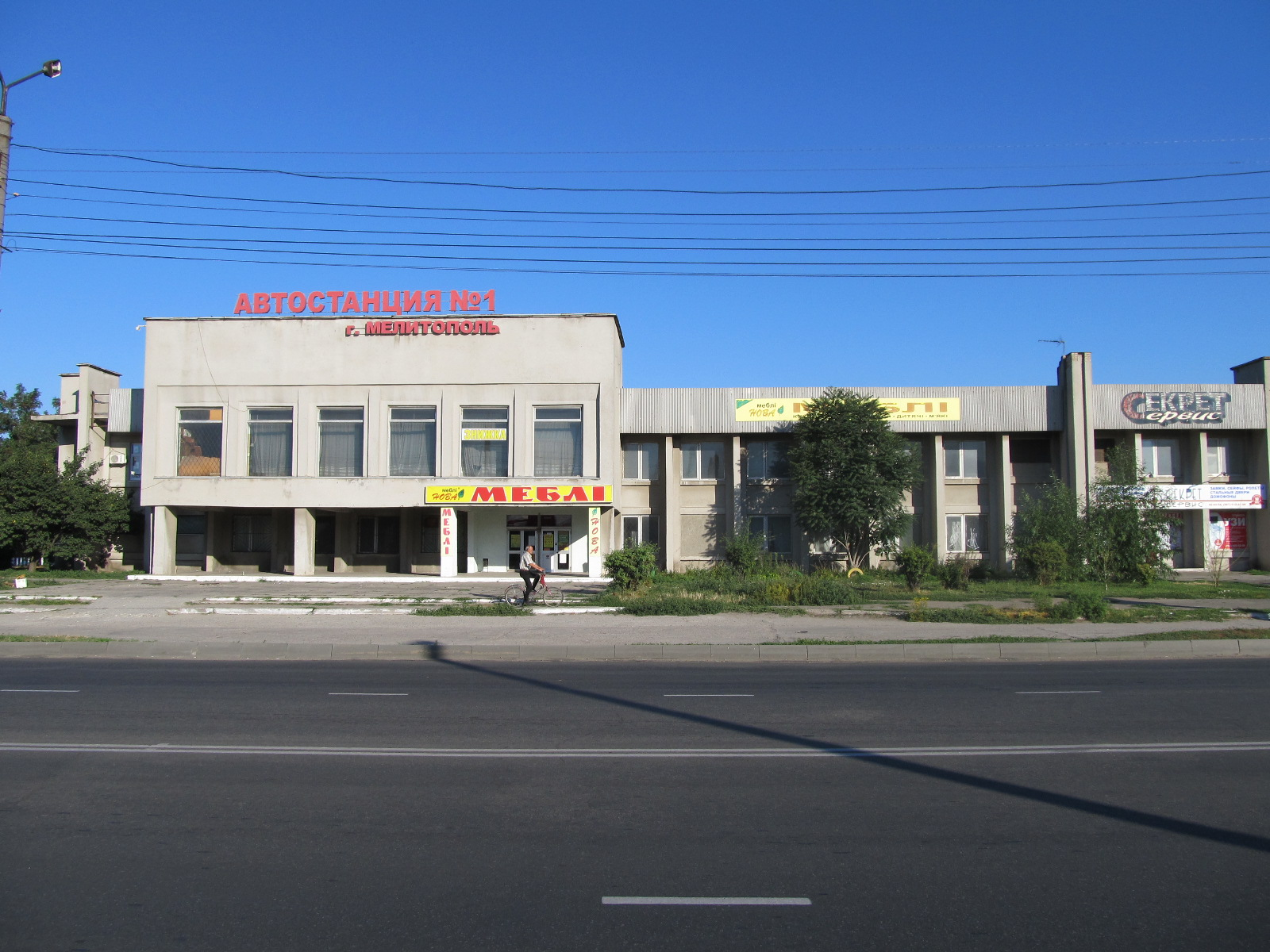 Voinov-Internatsyonalistov Str., Melitopol, Zaporizhia Oblast, Ukraine.